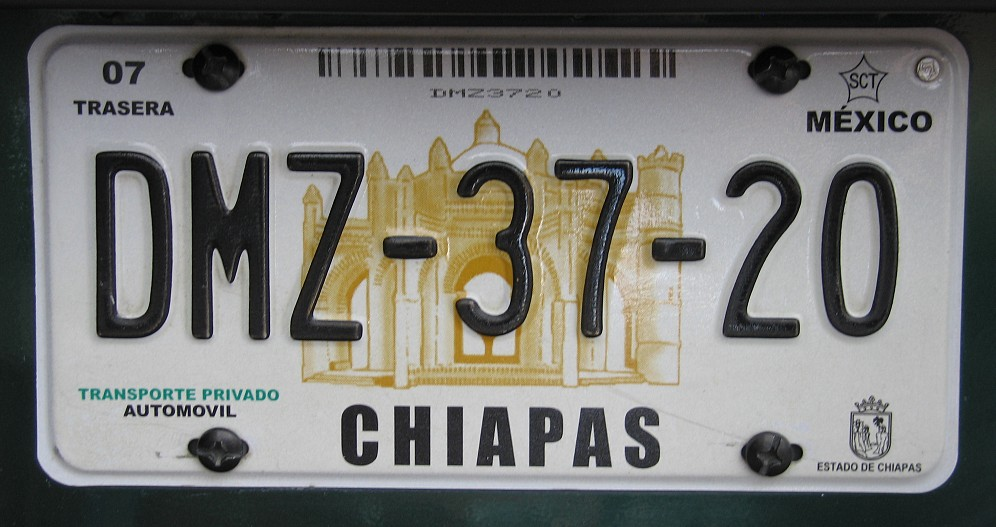 Number plate of Chiapas state, Mexico